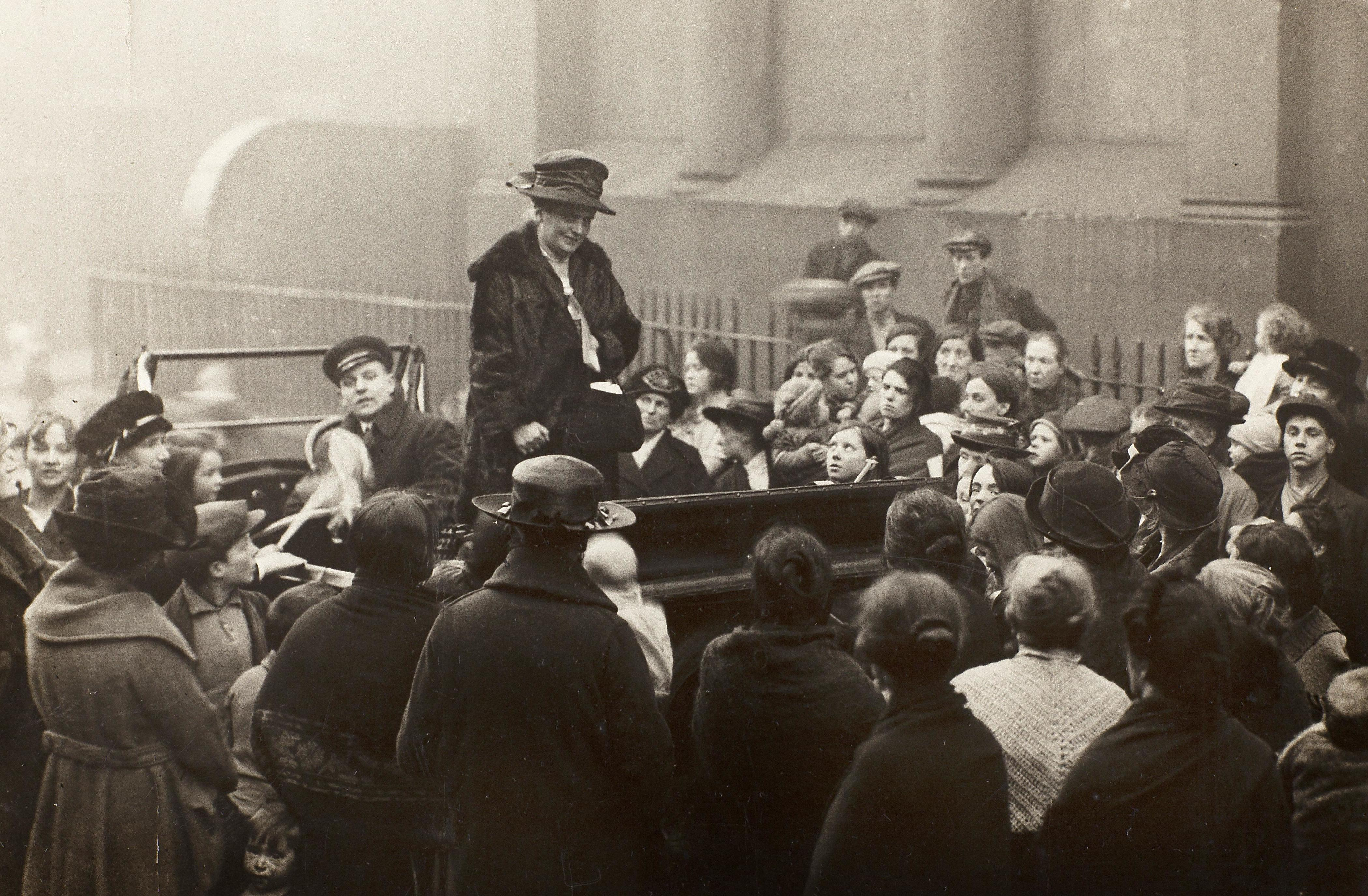 COLL MISC 1104